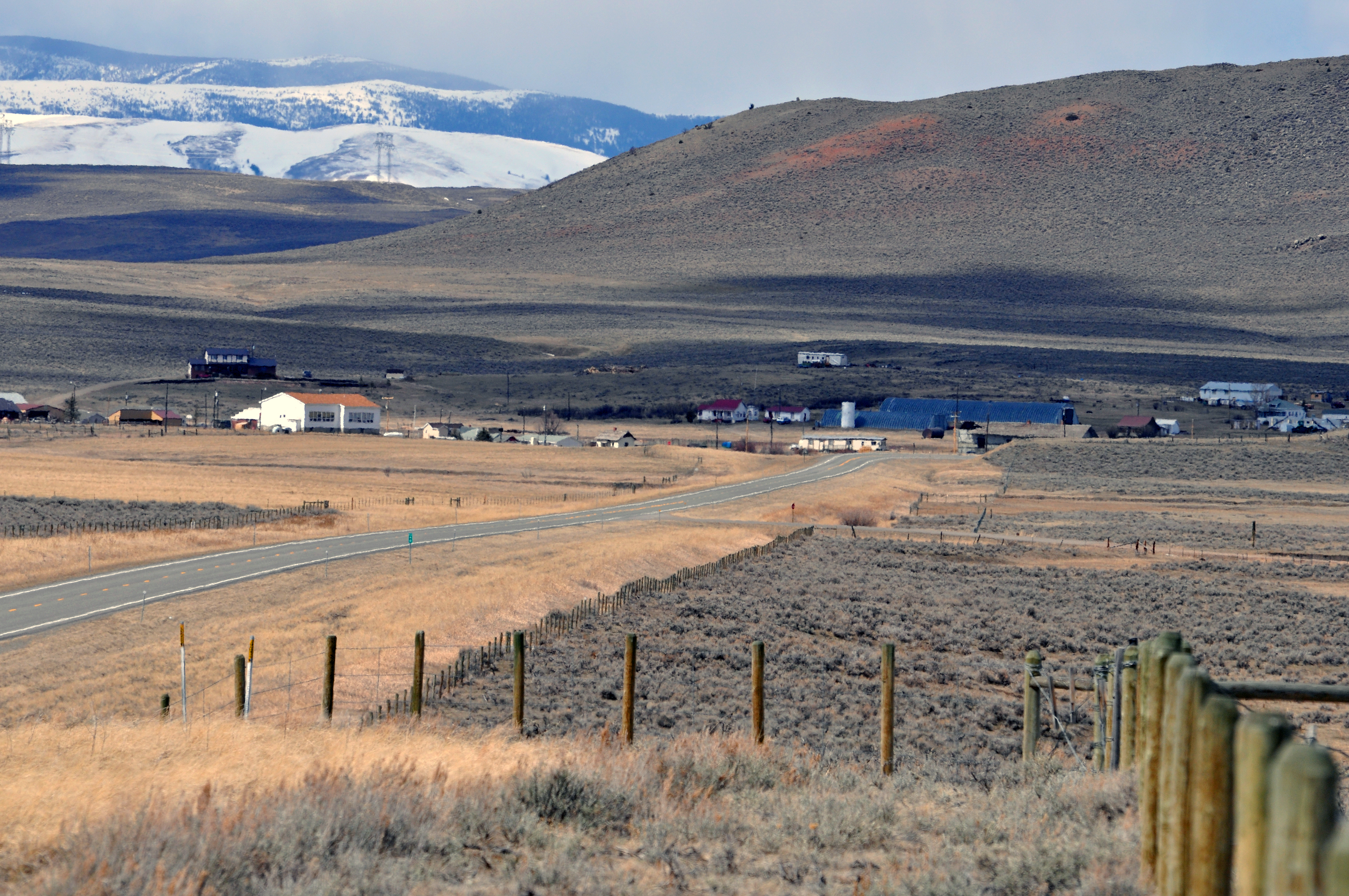 Ringling, Montana, Meagher County Montana, April 2010